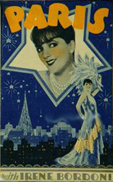 Poster for the 1929 film Paris. A renewal search was done in both film and artwork for the years 1956 and 1957. There were no listings for the film title in film or for the film title and First National in artwork. There's no evidence of continuing copyright on the film or its related materials.